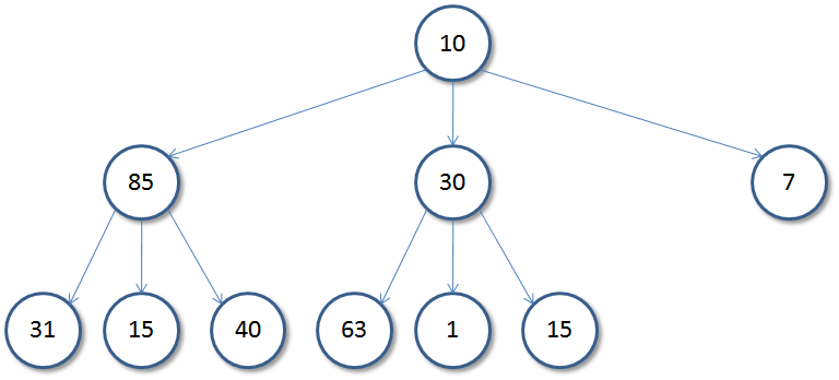 Example of ternary tree